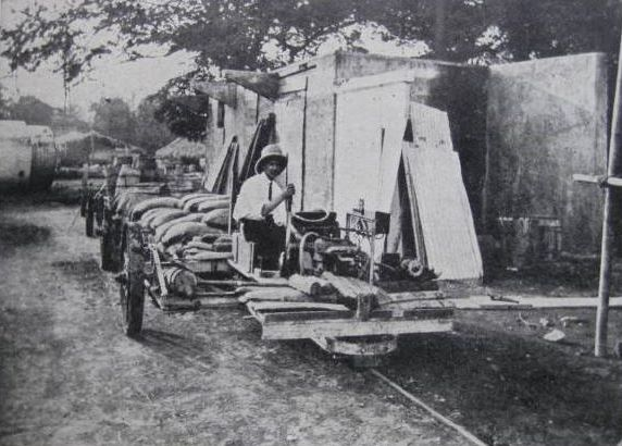 Patiala State Monorail Trainways - This engine was taken from a ordinary motor car to pull a train of four loaded vehicles